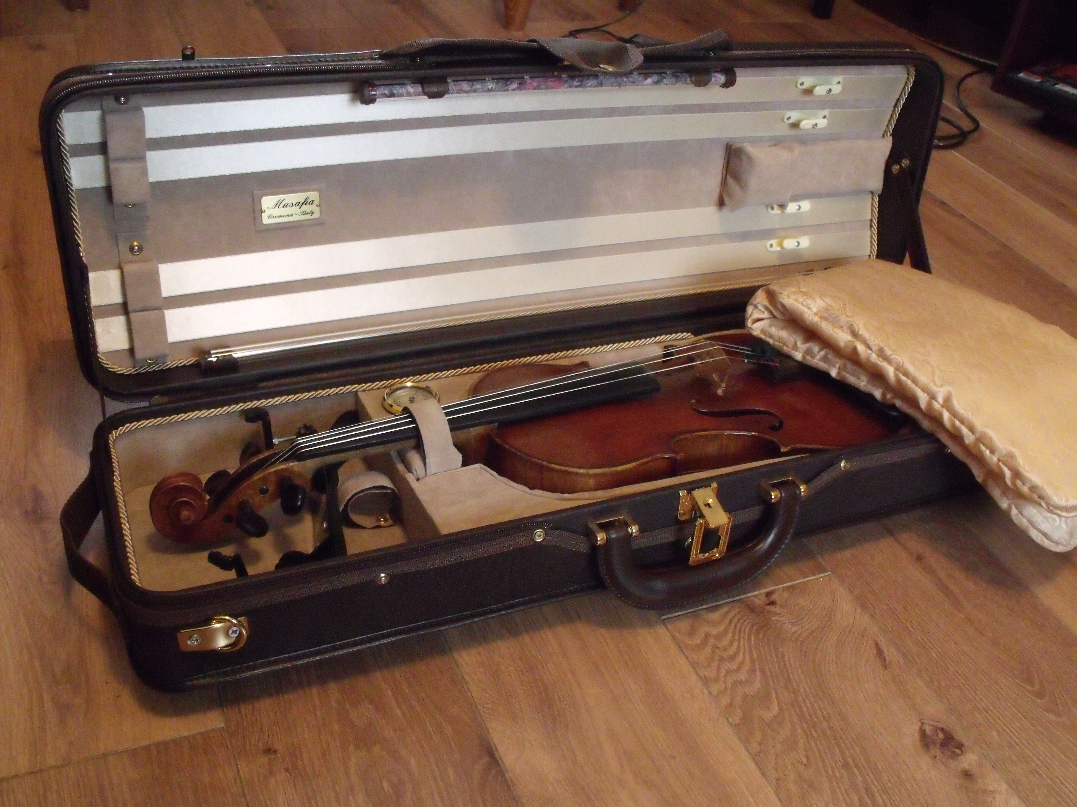 A photograph of a Musafia Momentum violin case with Pillow Blanket.